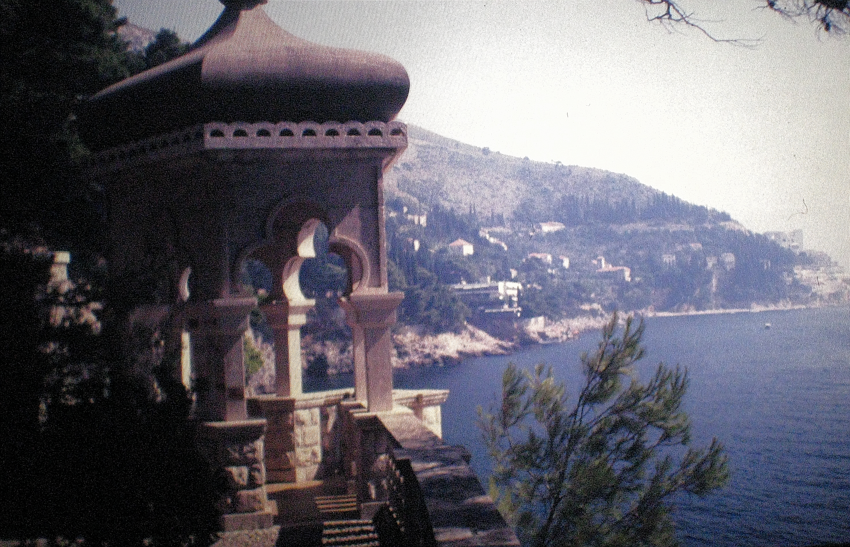 Villa Sheherezade, Dubrovnik.